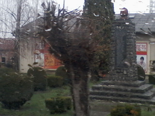 Center of Cabuna. In the first plan is the monument to the fallen Yugoslav partisan fighters 1941-45.